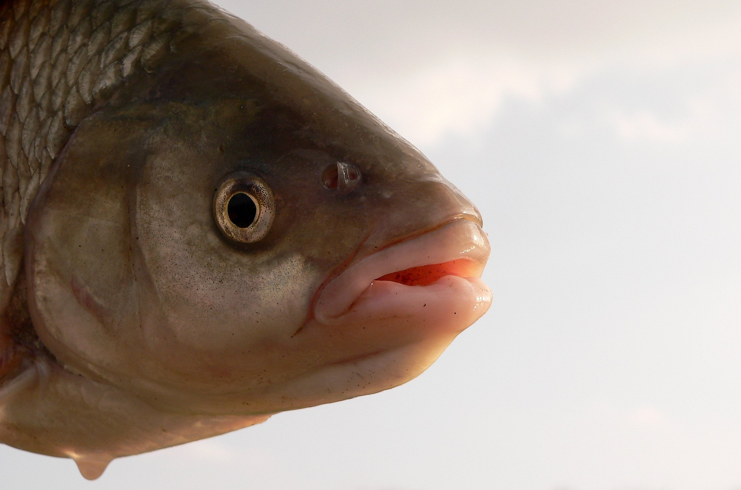 LeuciscusIdus head 45cm